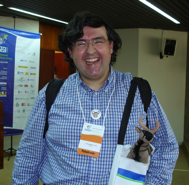 Alexandre Oliva at CONSEGI